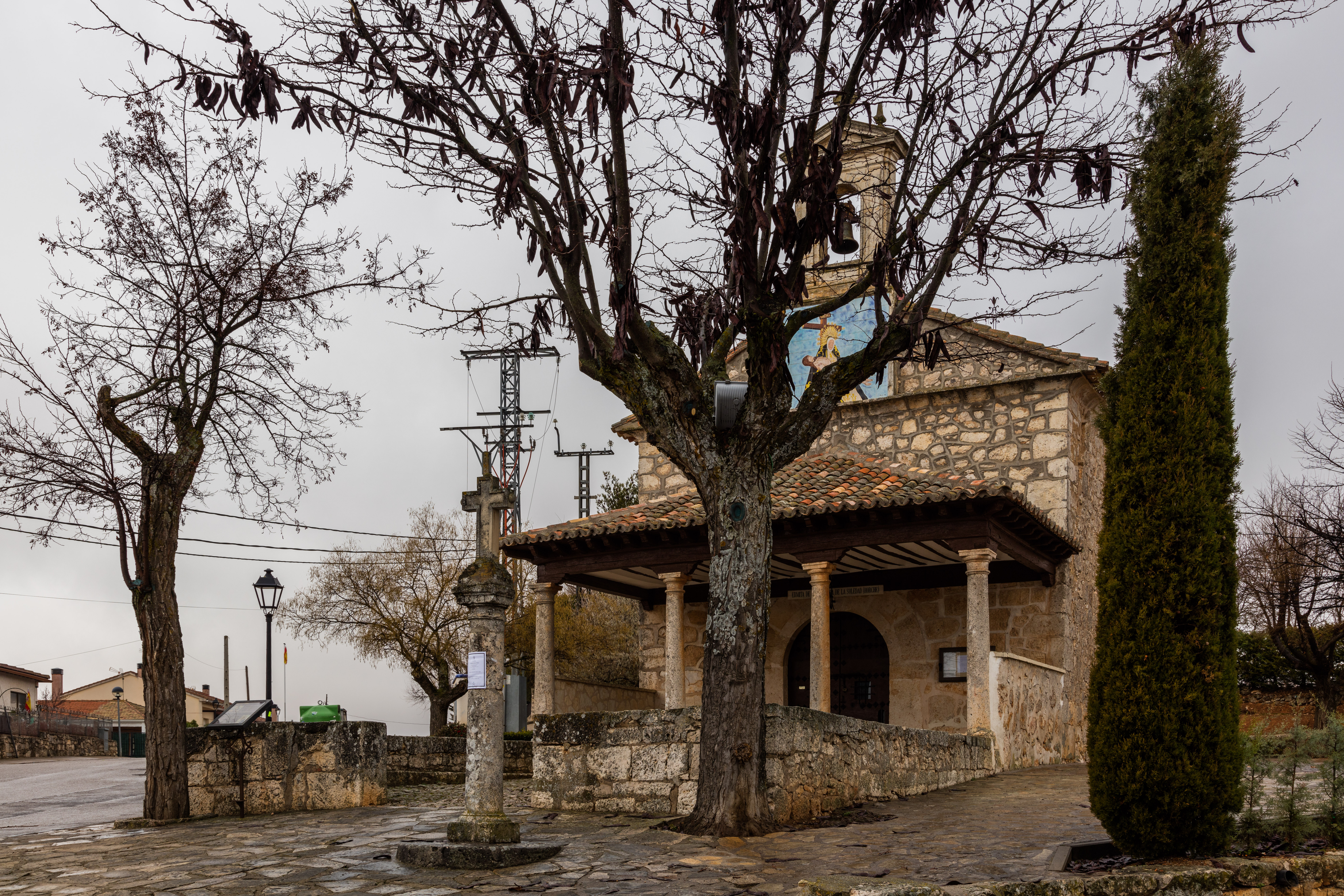 Hermitage of Our Lady of the Loneliness, Horche, Guadalajara, Spain